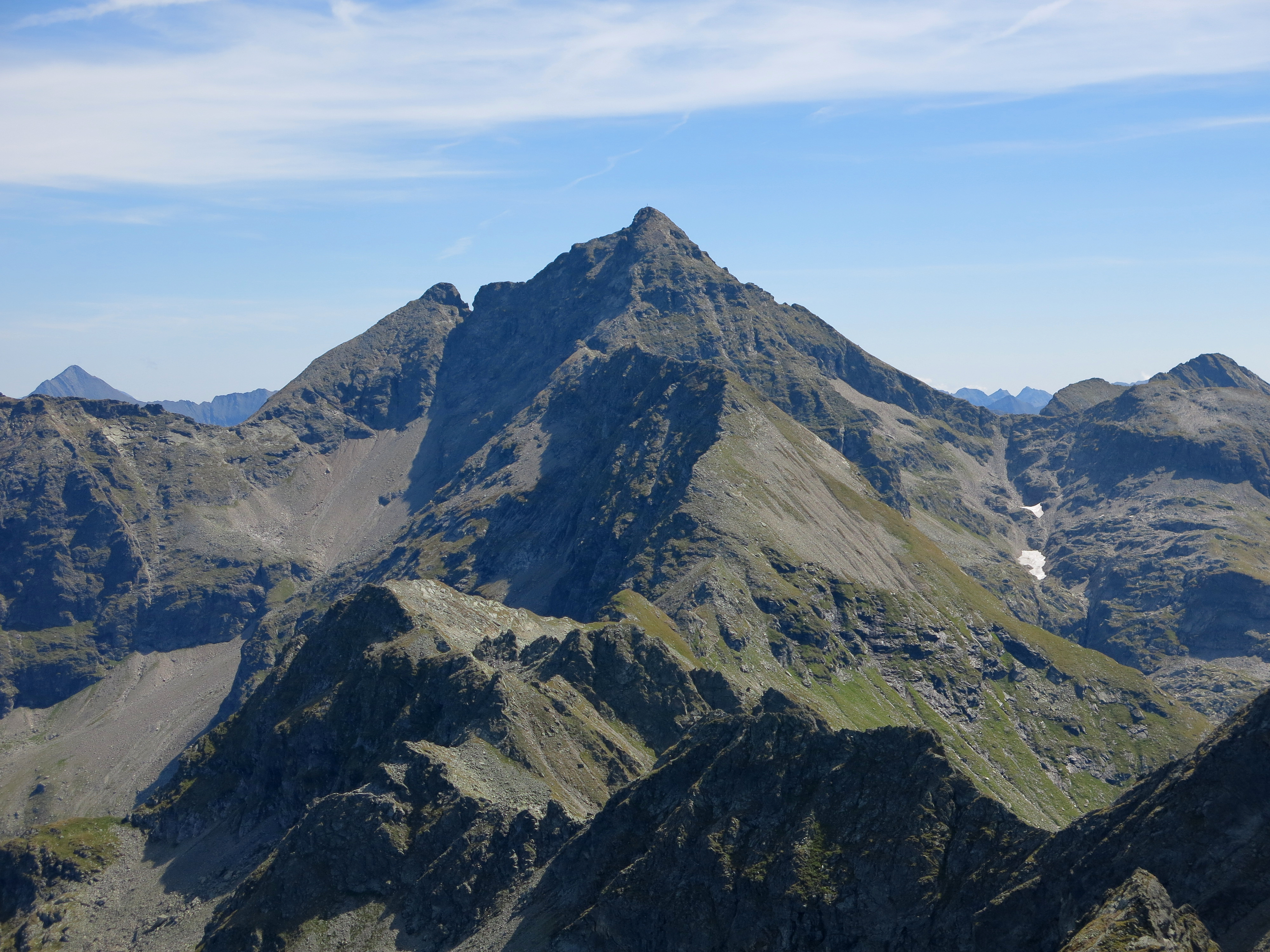 Hochwildestelle (2747 m) in the Schladming Tauern seen from NW (Höchstein 2543 m).